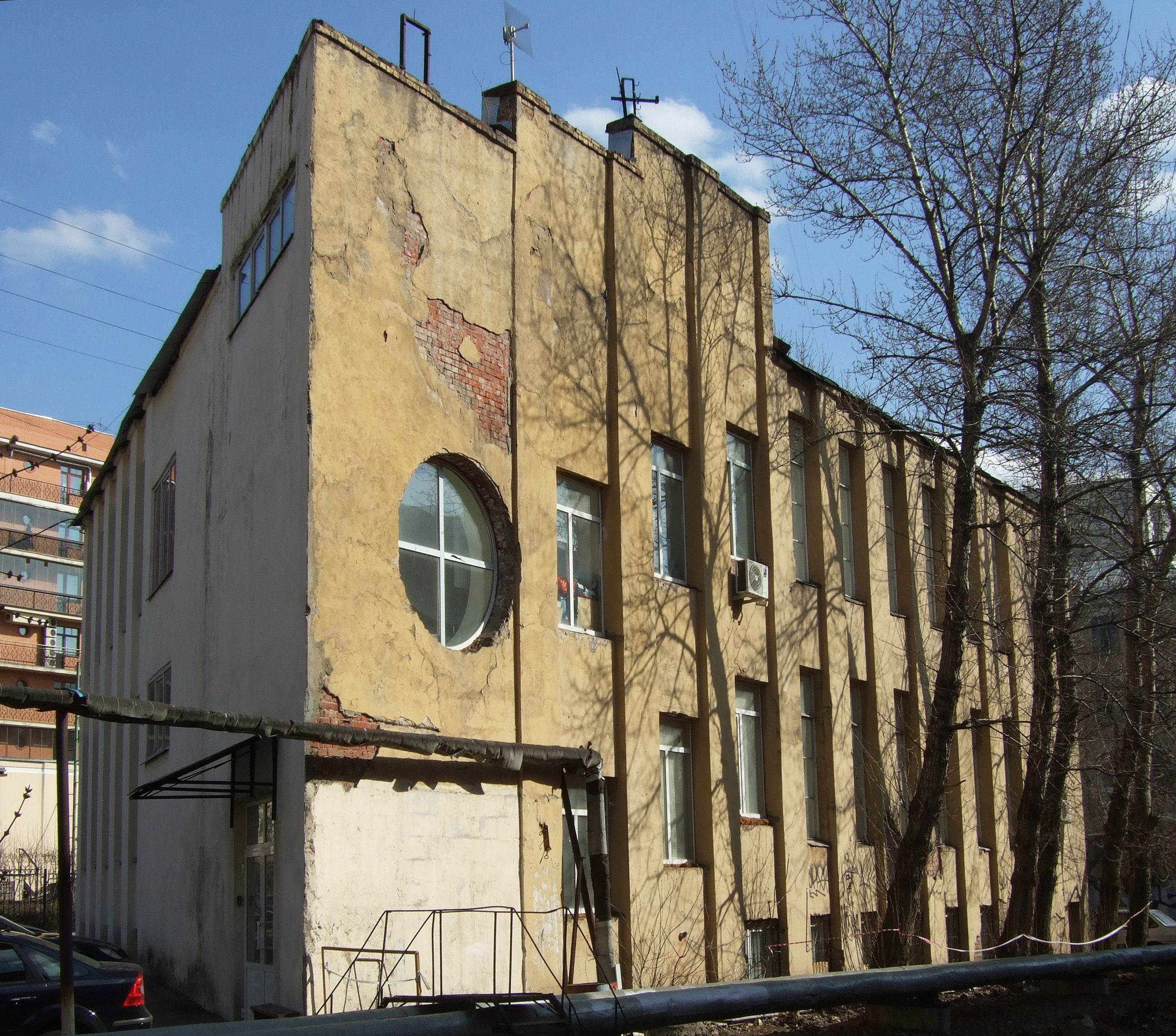 The Sukharev Market Office design by Konstantin Melnikov.